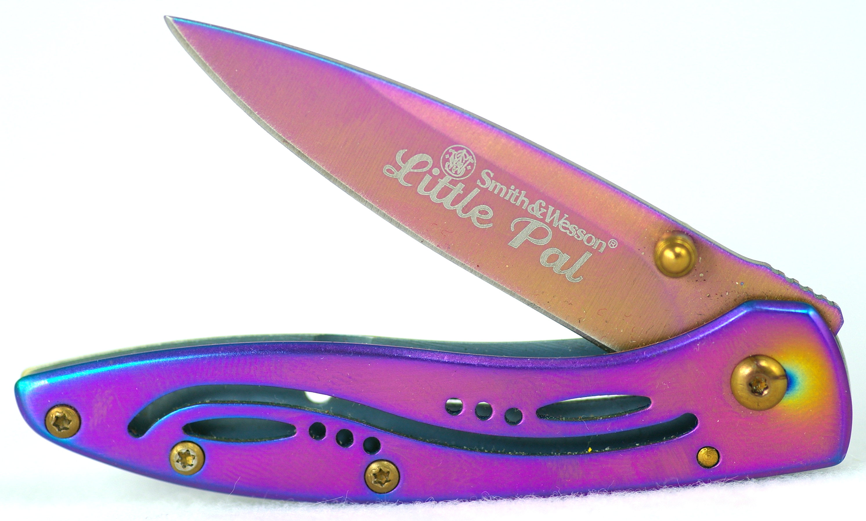 A Smith&Wesson knife with a cool "rainbow" titanium coating.